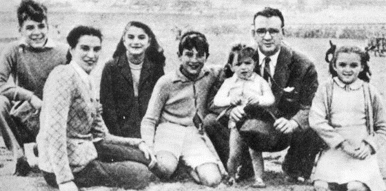 Ernesto "Che" Guevara with his family, 1941